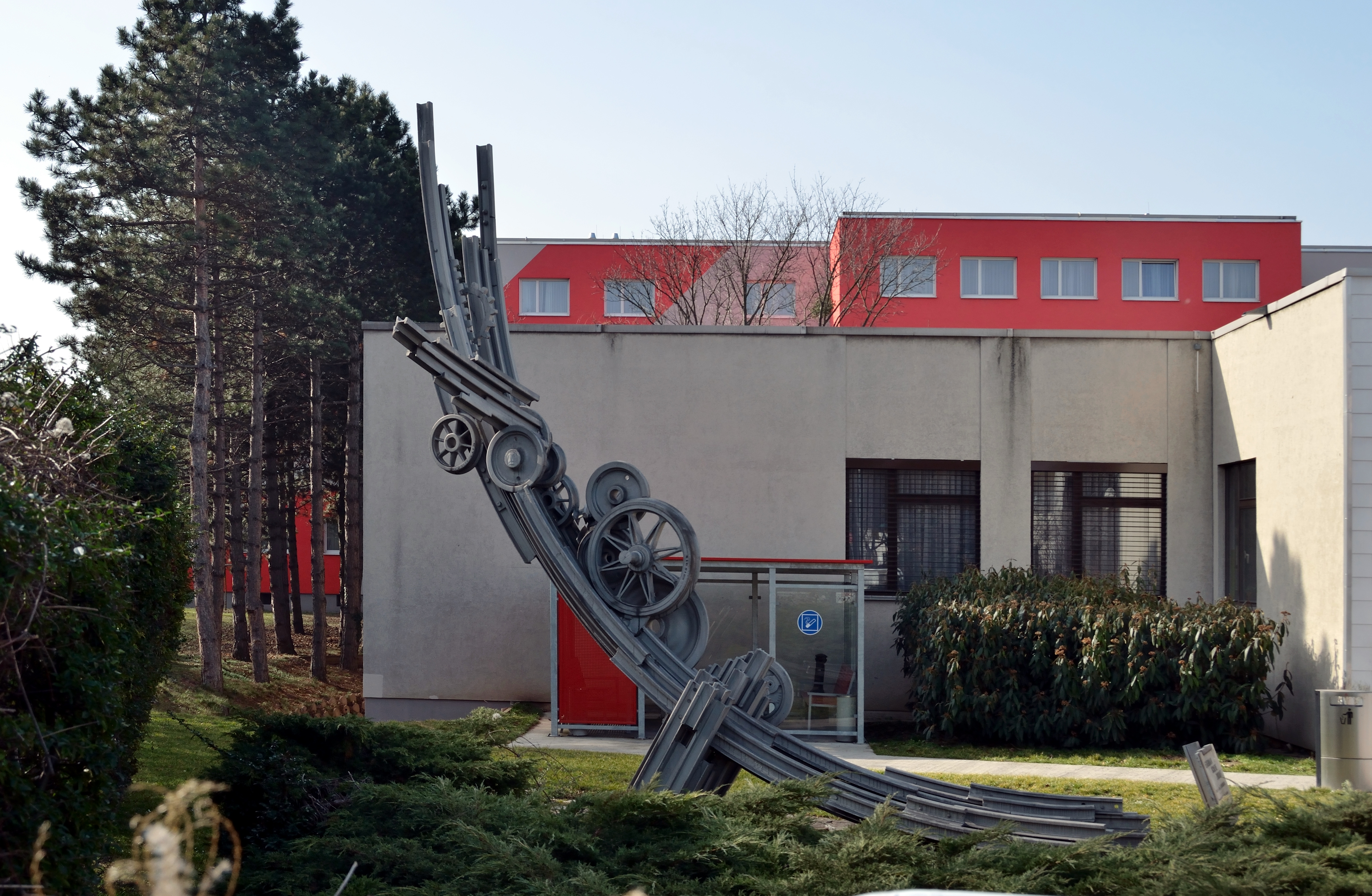 Home for apprentices, ÖBB (Austrian rails), Kundratstraße, Meidling, Vienna: a sculpture by A. Obermoser titled: Railway, rail, future.